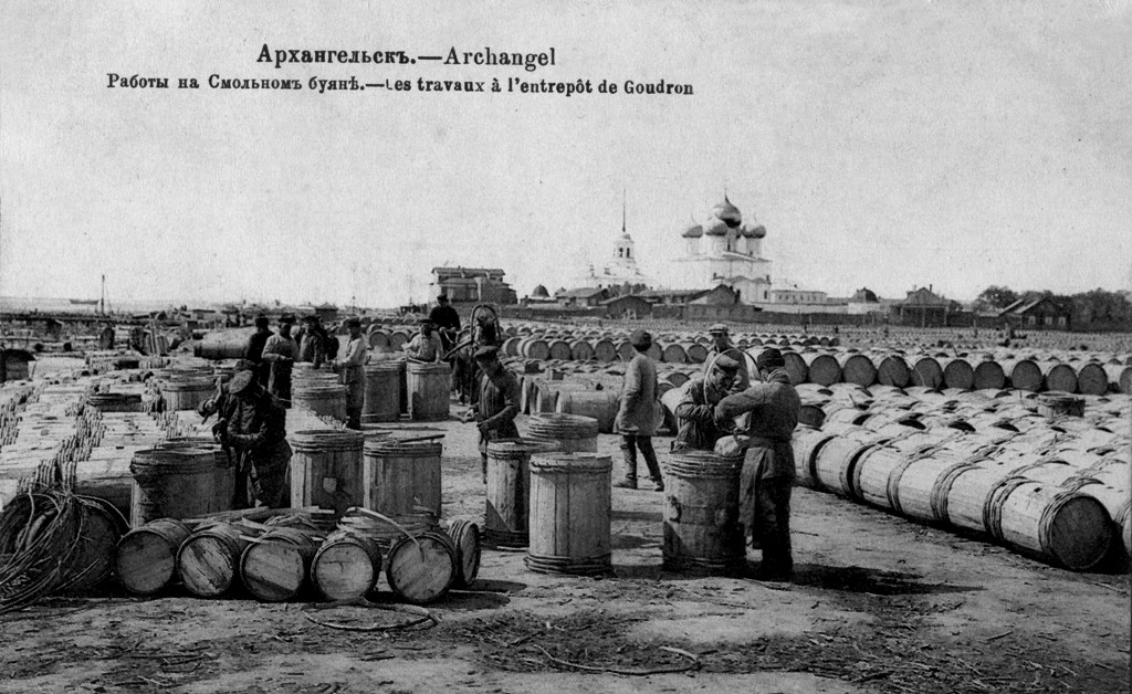 Arhangelsk. Smolny Buyan (1900-1914 photo) Flickr data on 2011-08-14 Tags: Smolny Buyan, Arhangelsk, Arkhangelsk, postcard, Old Russia License: CC BY-SA 2.0 User: paukrus Ruslan